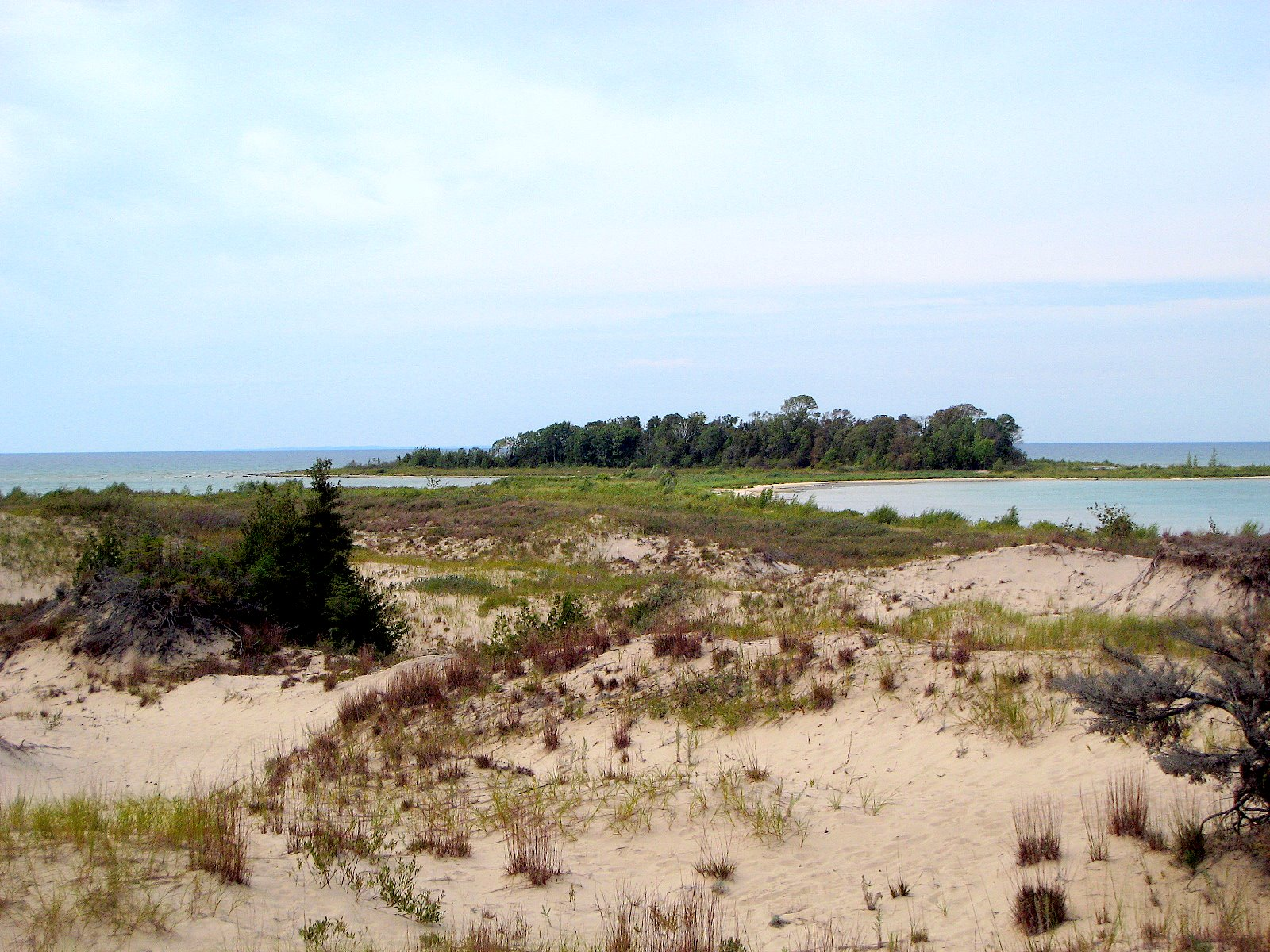 Fisherman's Island From picnic area.